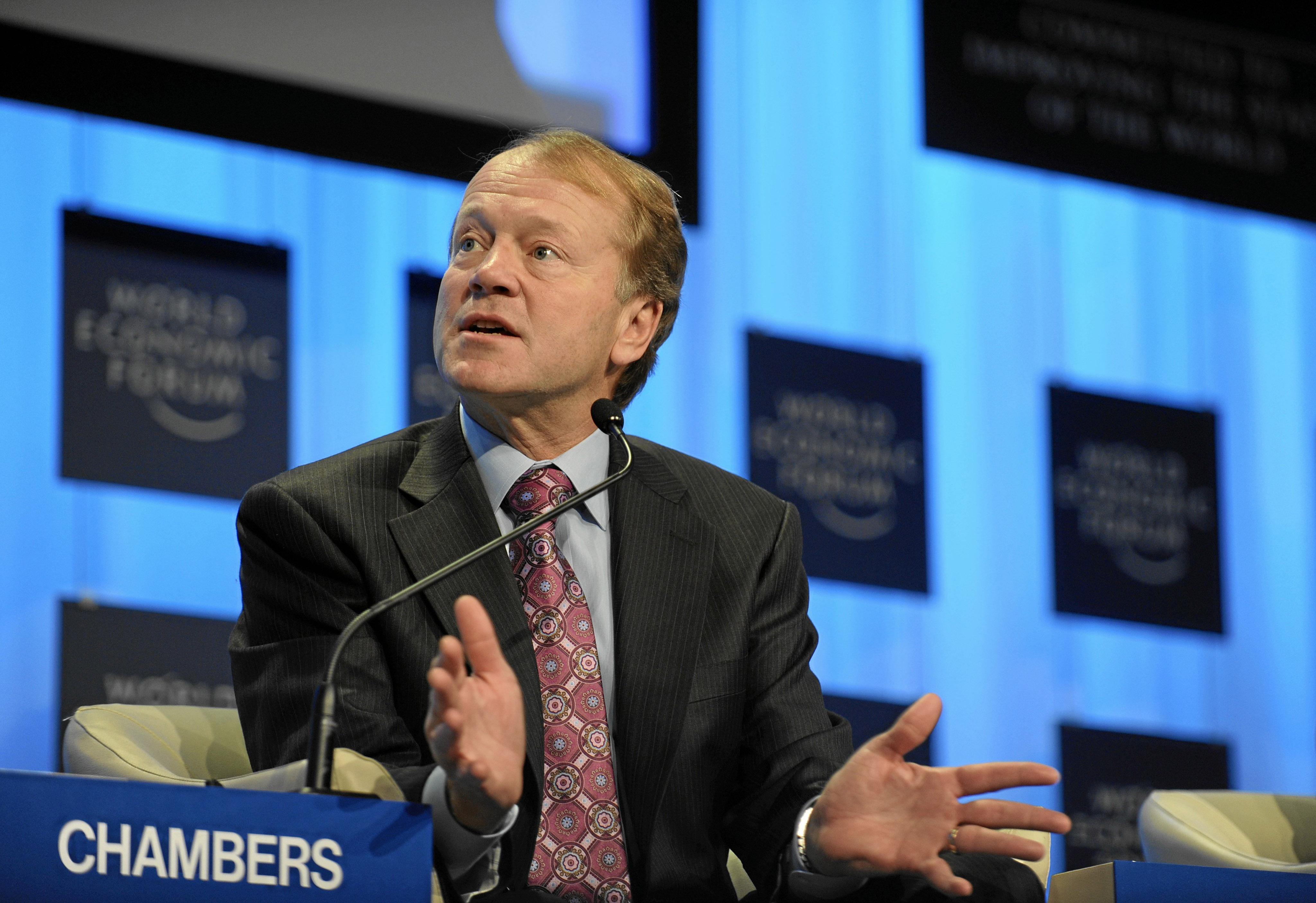 DAVOS/SWITZERLAND, 30JAN10 - John T. Chambers, Chairman and Chief Executive Officer, Cisco, USA captured during the session 'Rebuilding Education for the 21st Century' at the congress centre at the Annual Meeting 2010 of the World Economic Forum in Davos, Switzerland, January 30, 2010.